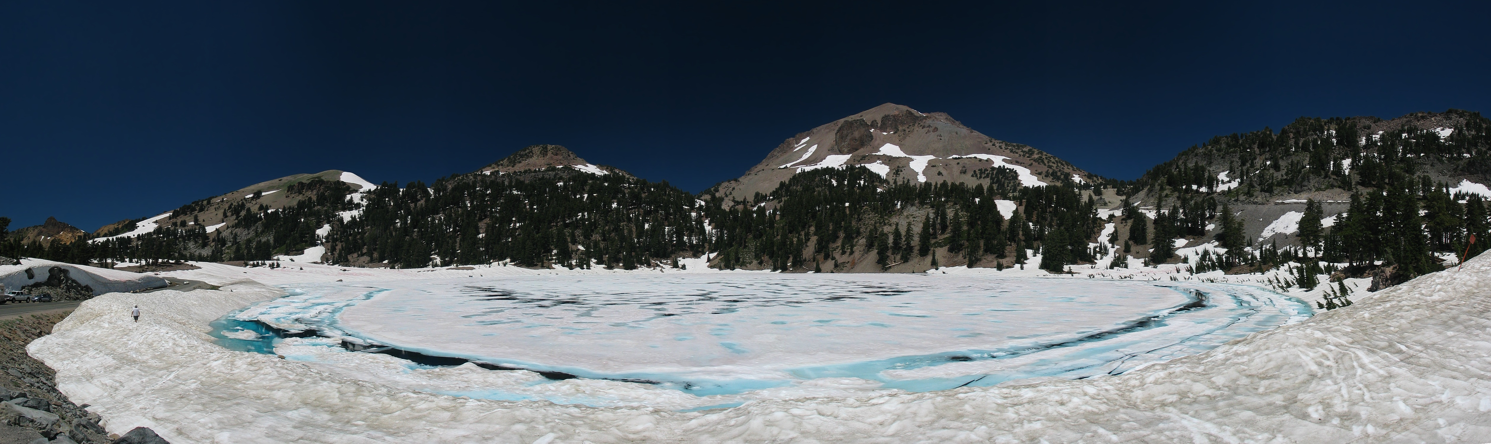 Lake Helen in Lassen Volcanic National Park